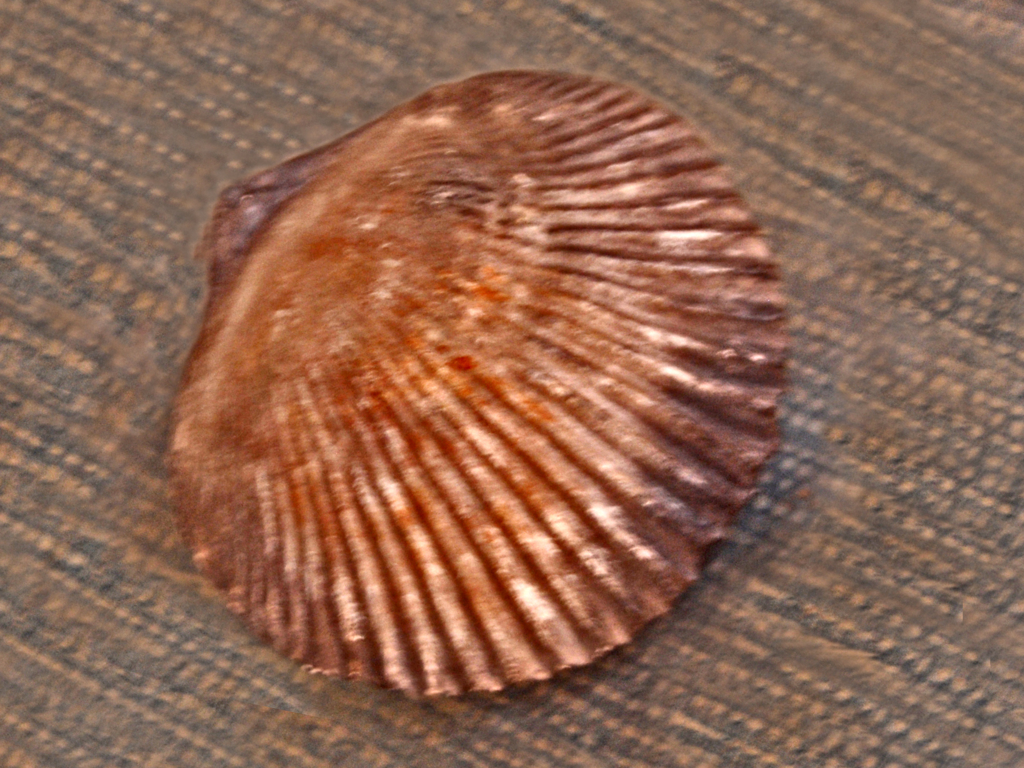 Fossil of Peregrinella multicarinata from France, on display at Gallery of Paleontology and Comparative Anatomy, Paris.